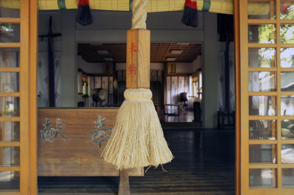 View of entrance to the Sanno shrine